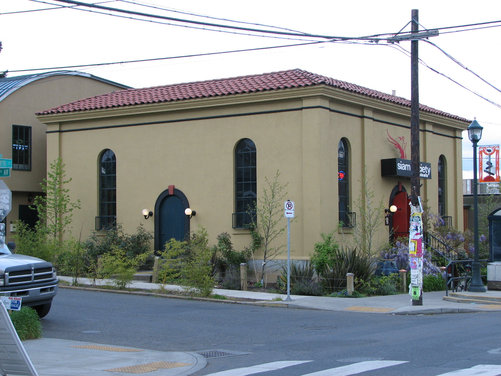 The Northwestern Electric Company Alberta Substation at 2701-2717 Northeast Alberta Street in Portland, Oregon, United States, is listed on the US National Register of Historic Places. It is currently in use as a restaurant.